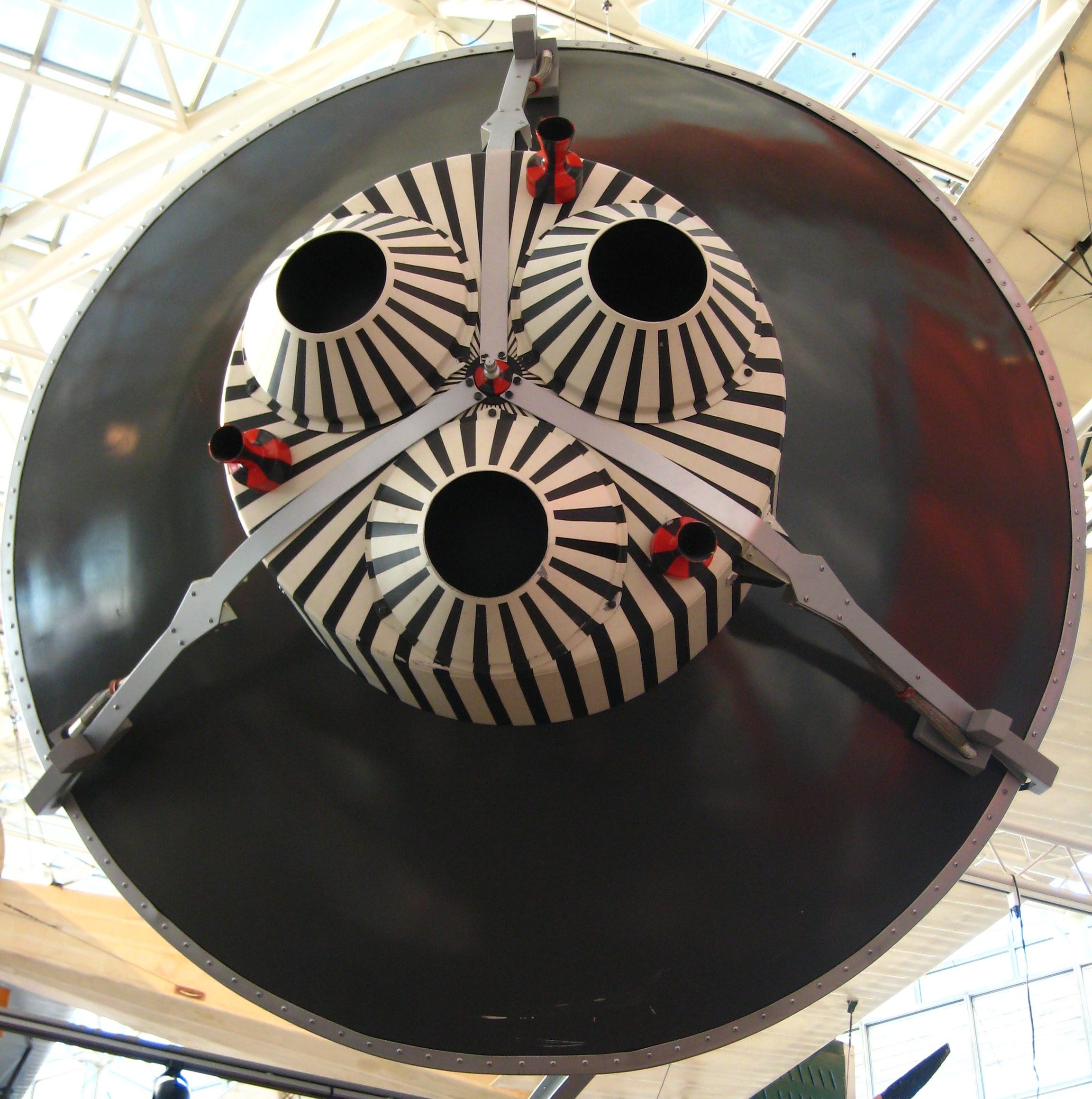 Replica of the McDonnell Mercury Capsule at The Museum of Flight in Seattle, WA.